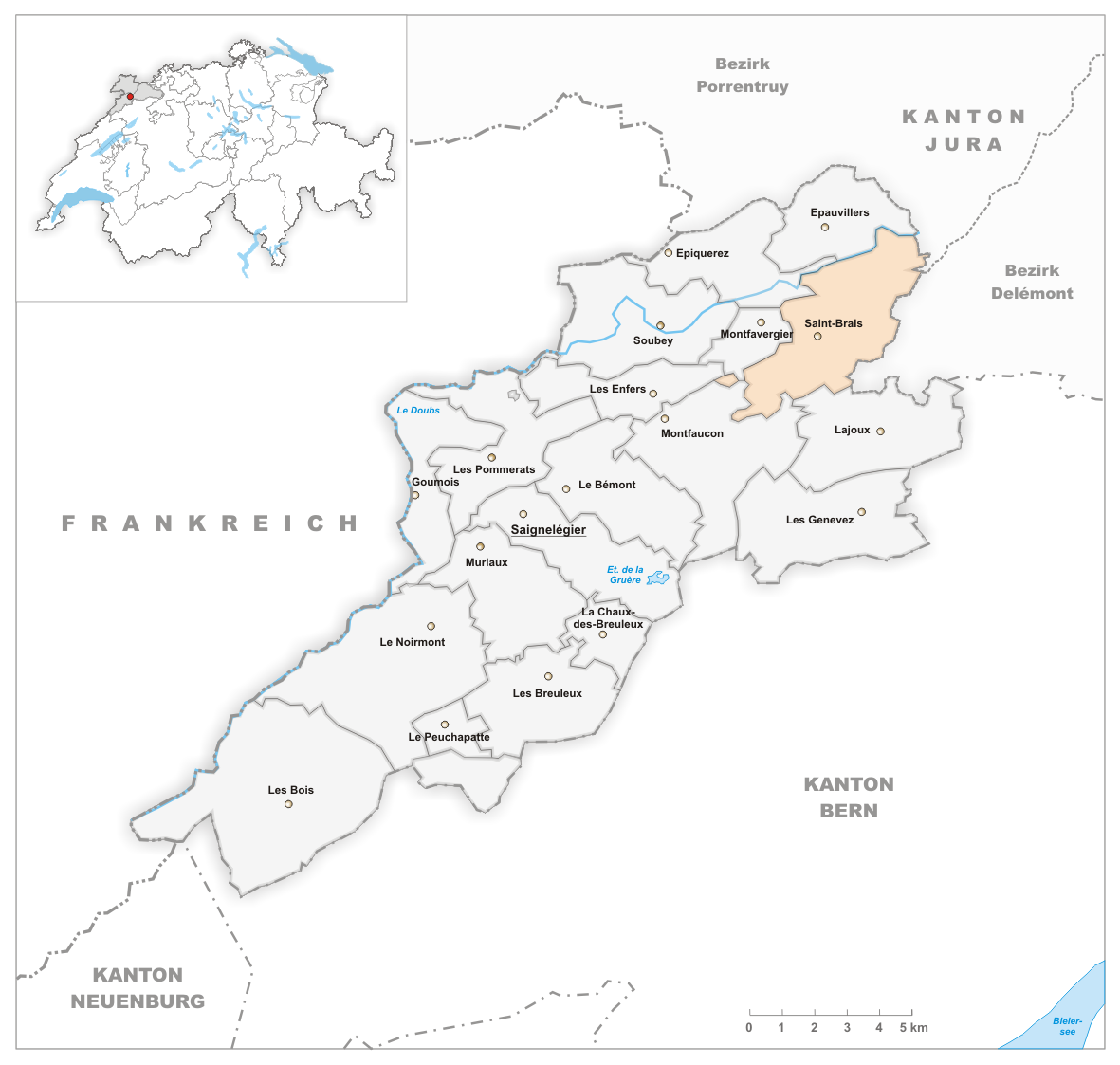 Municipality Saint-Brais